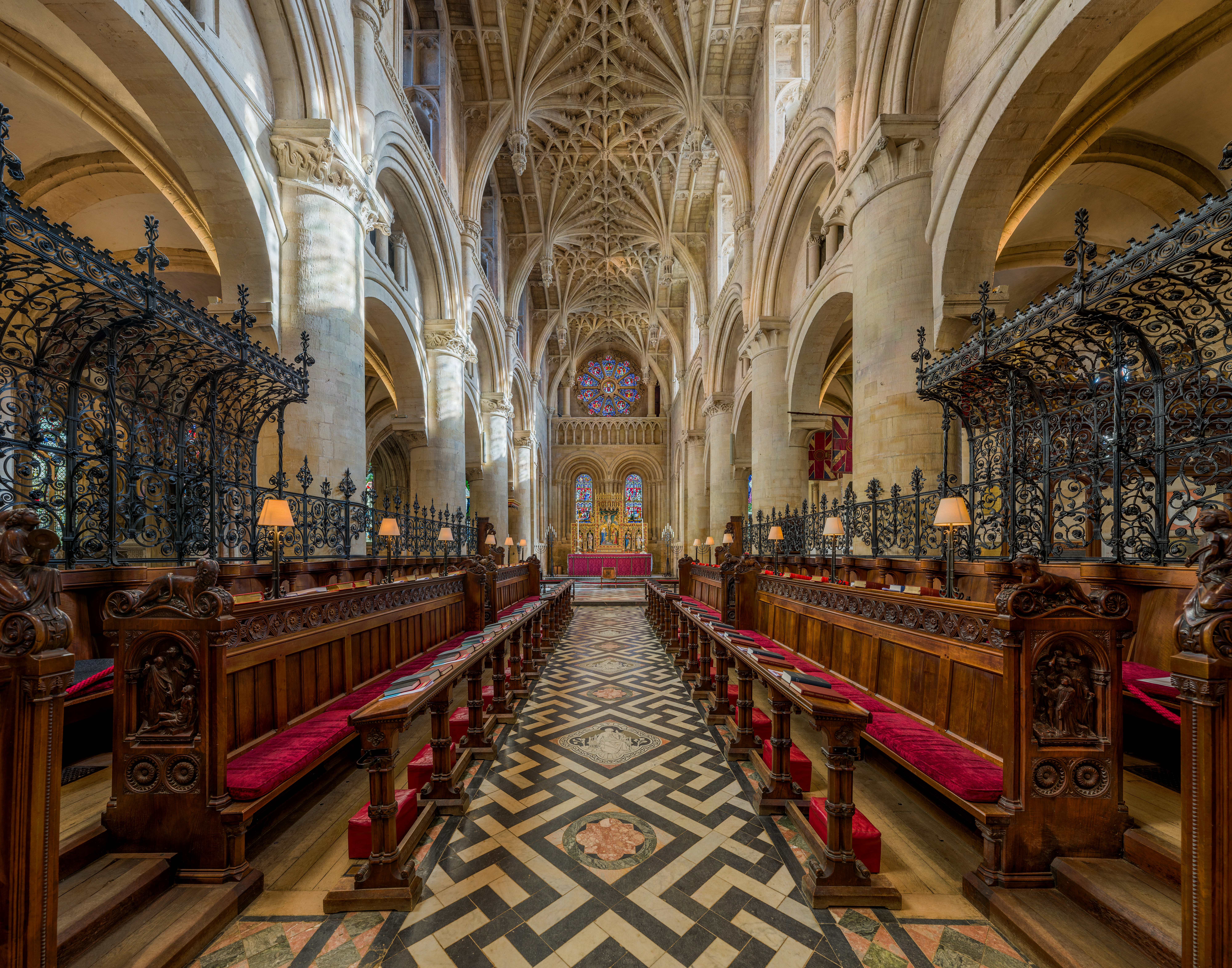 Looking east towards the altar from the nave of Christ Church Cathedral, Oxford, England. The cathedral is also the chapel of Christ Church, one of the colleges of the University of Oxford.